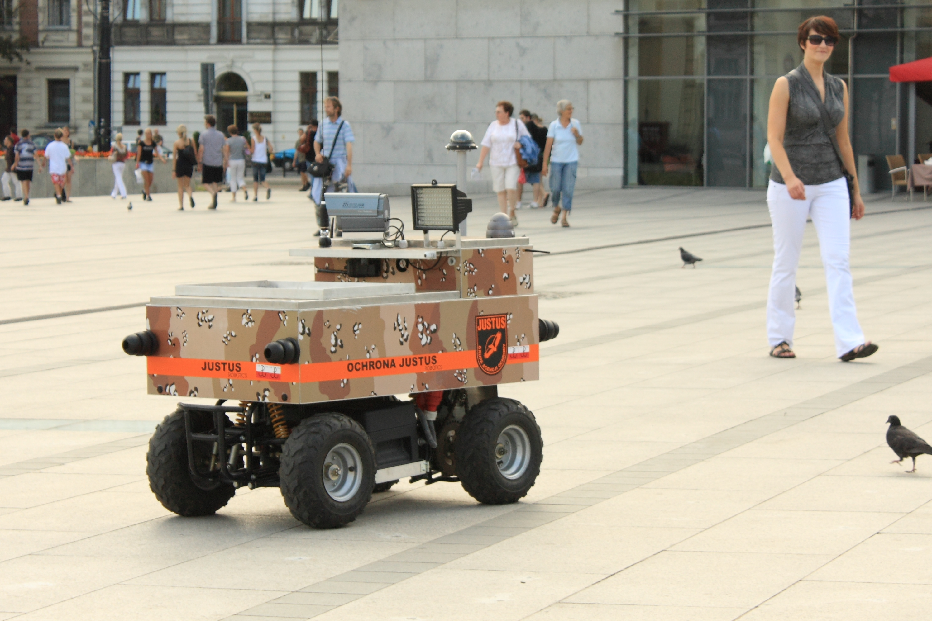 Justus security robot in front of Krakow railway station.